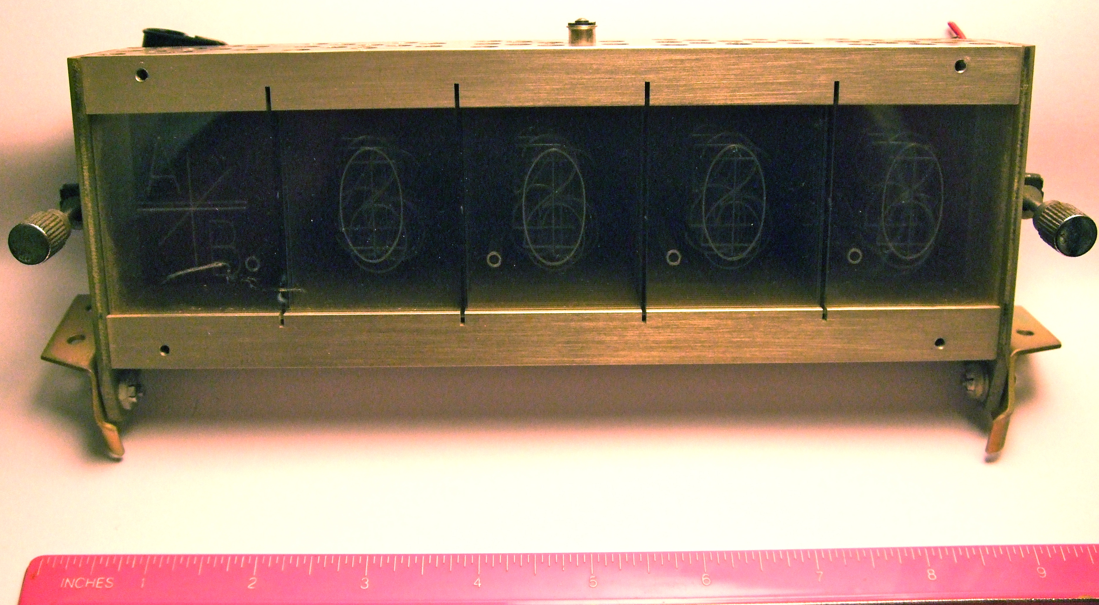 An example of an edge-lit display mechanism salvaged from a bench multimeter.